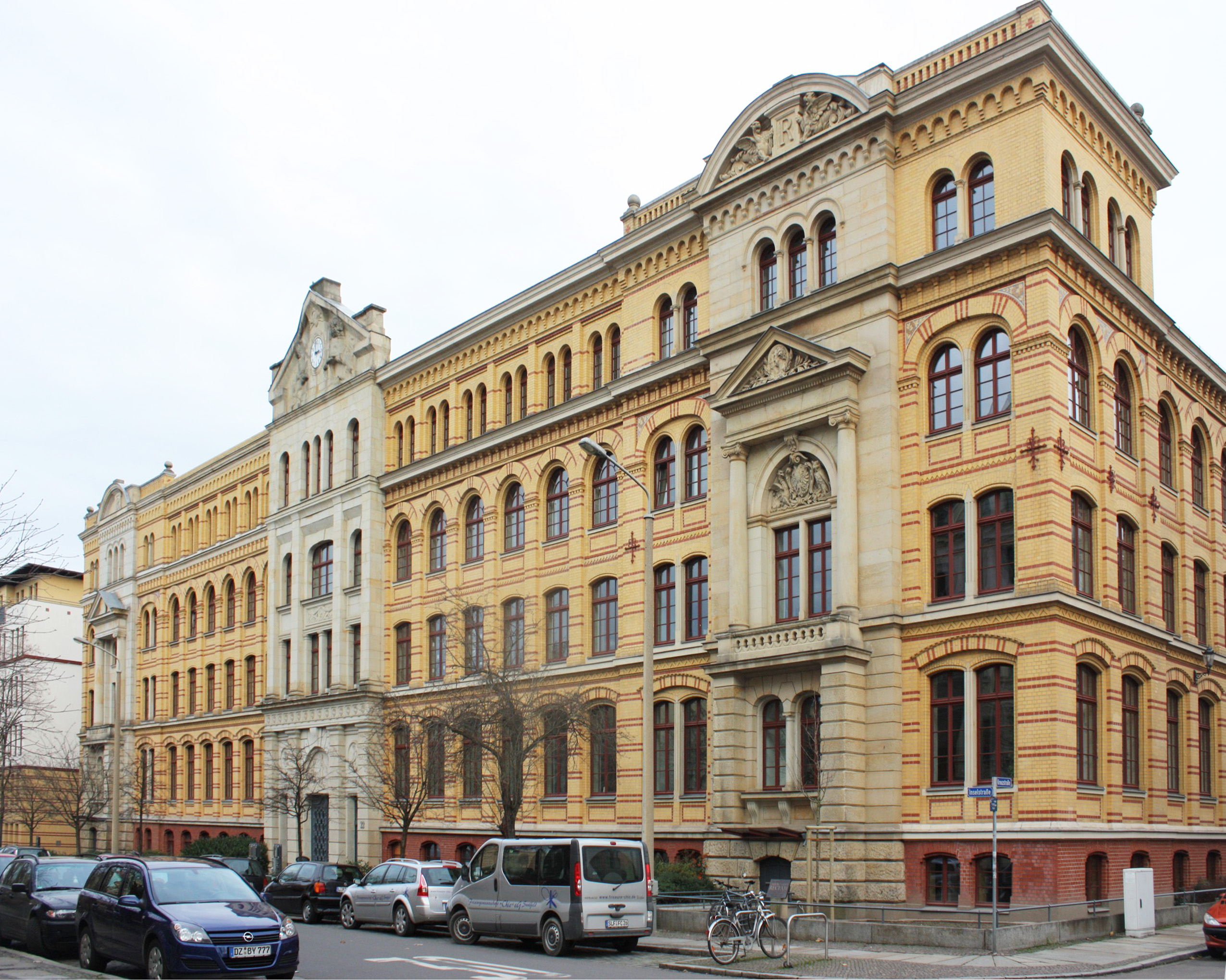 Leipzig, the former Reclam publishing house